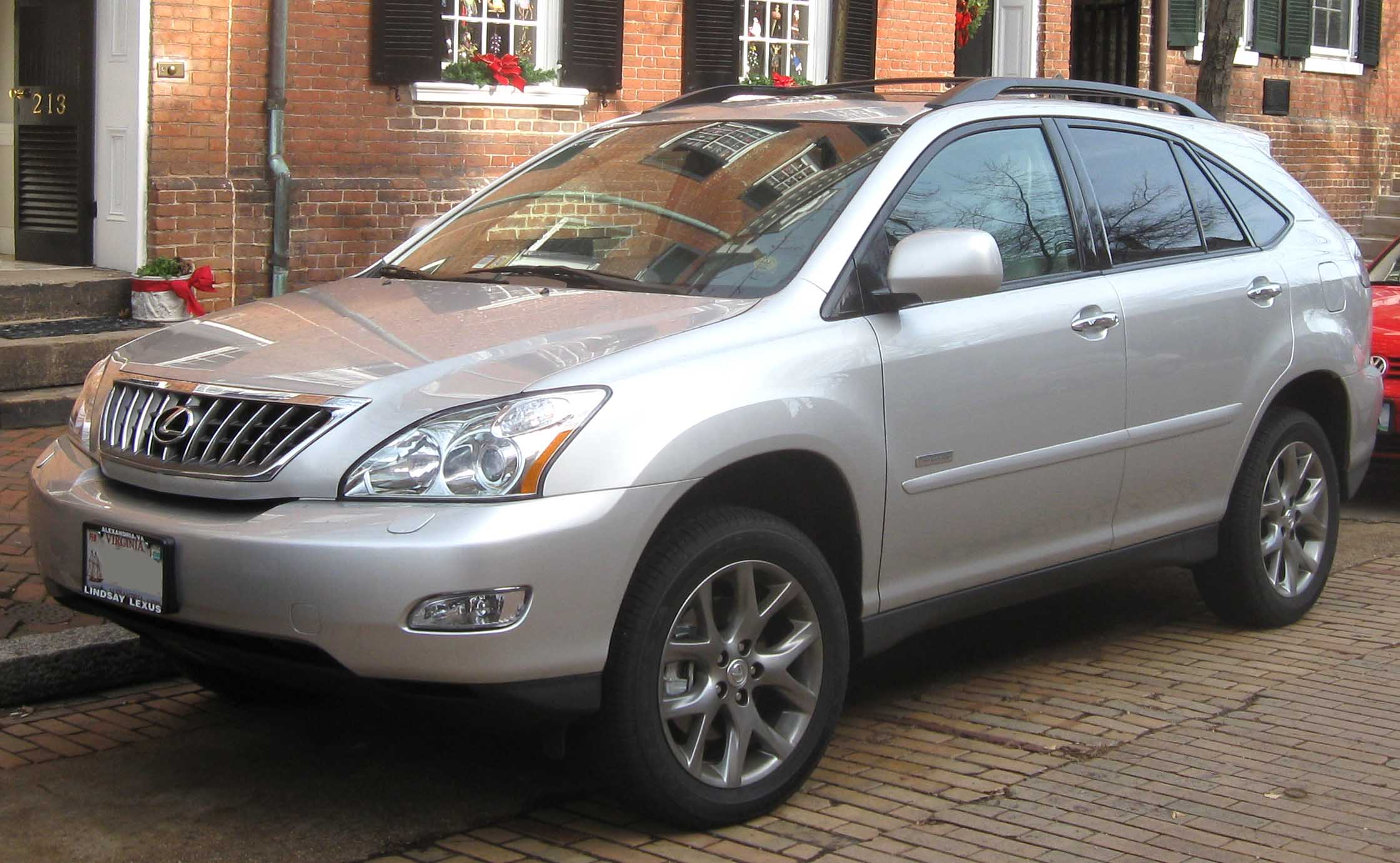 2009 Lexus RX350 photographed in Alexandria, Virginia, USA.